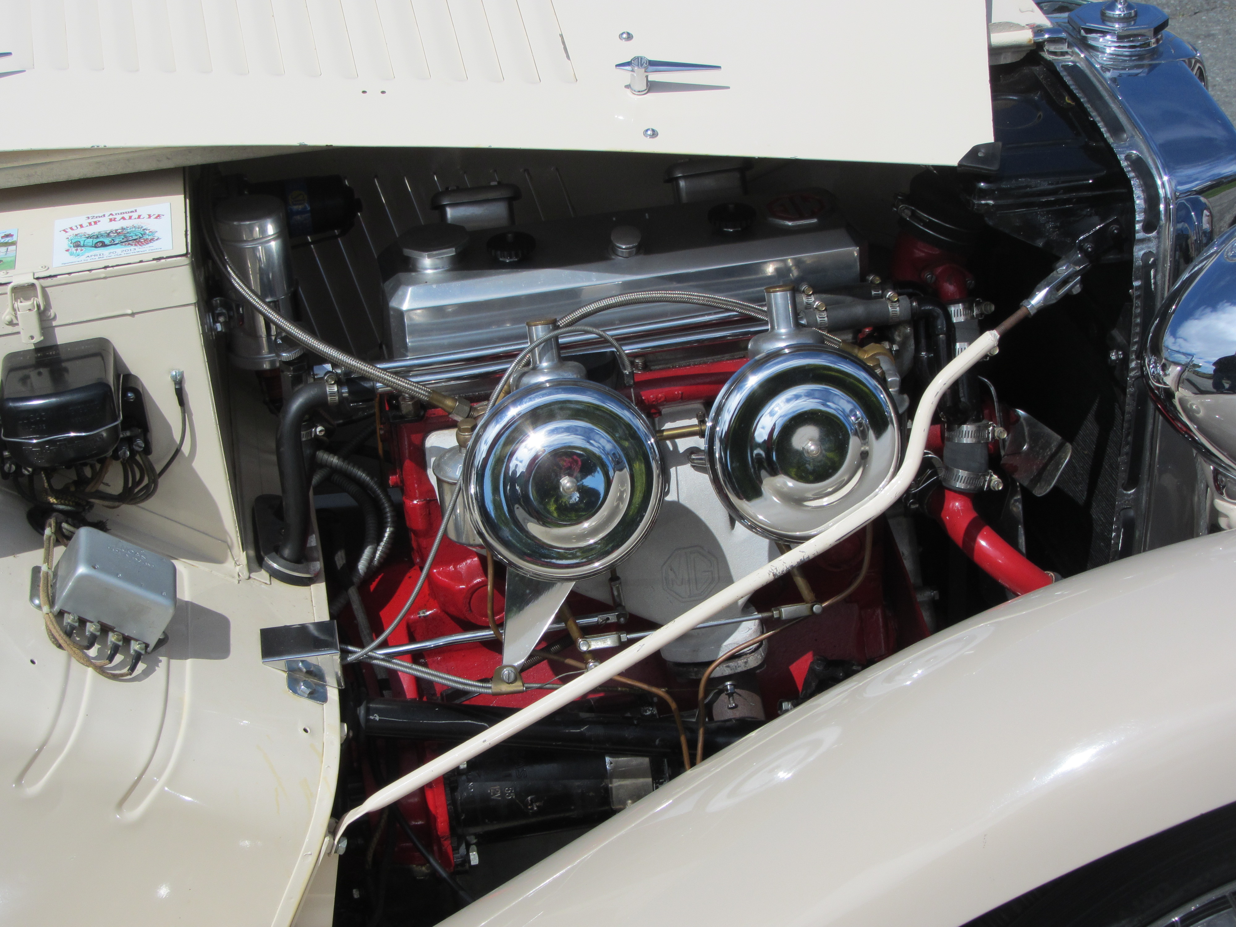 Engine MGTC 1949 Car show in Anacortes WA